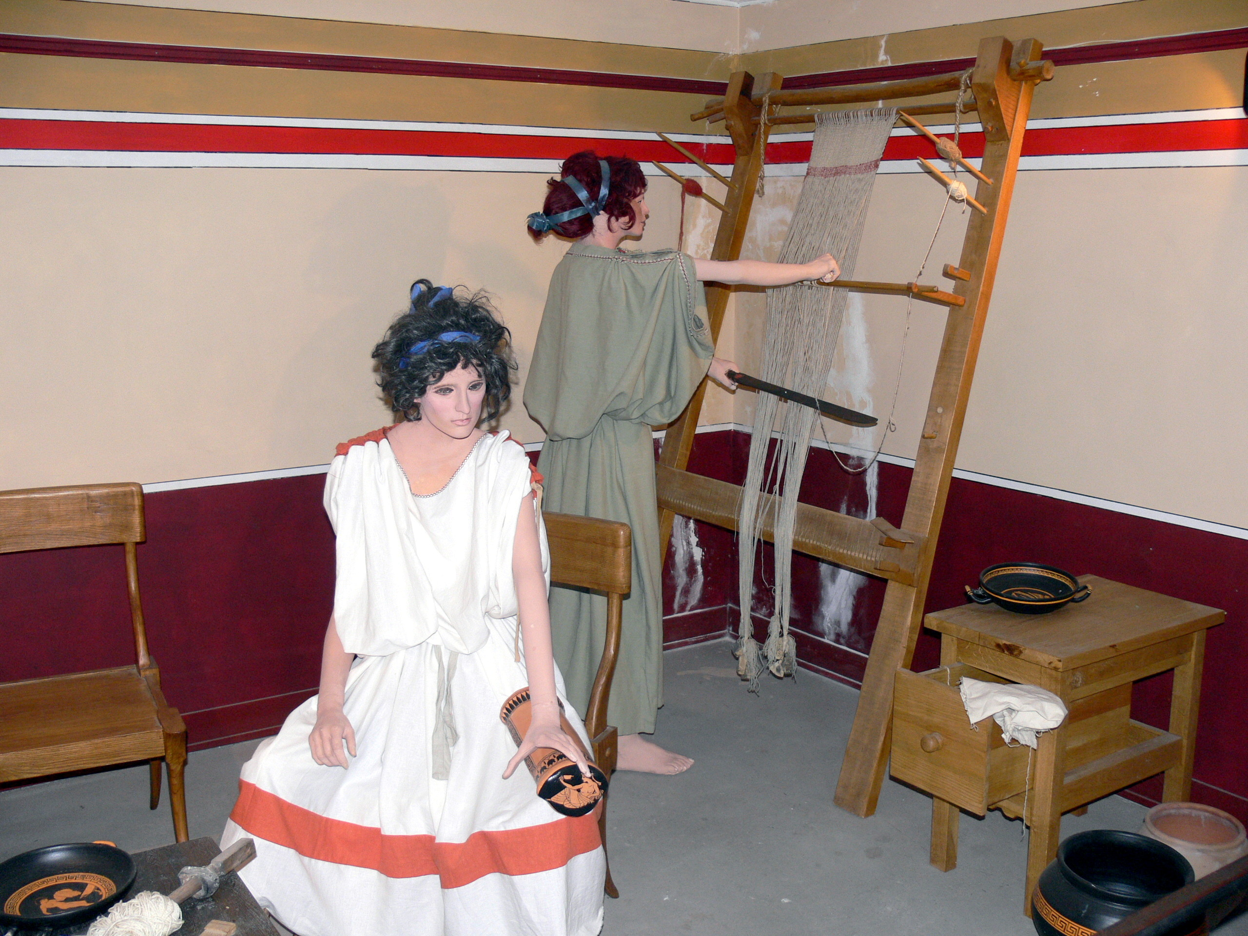 Bible open air museum in Nijmegen. Roman town: Roman women weaving.